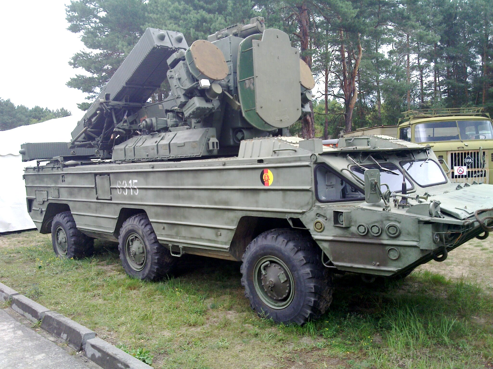 East-German 9K33 Osa.